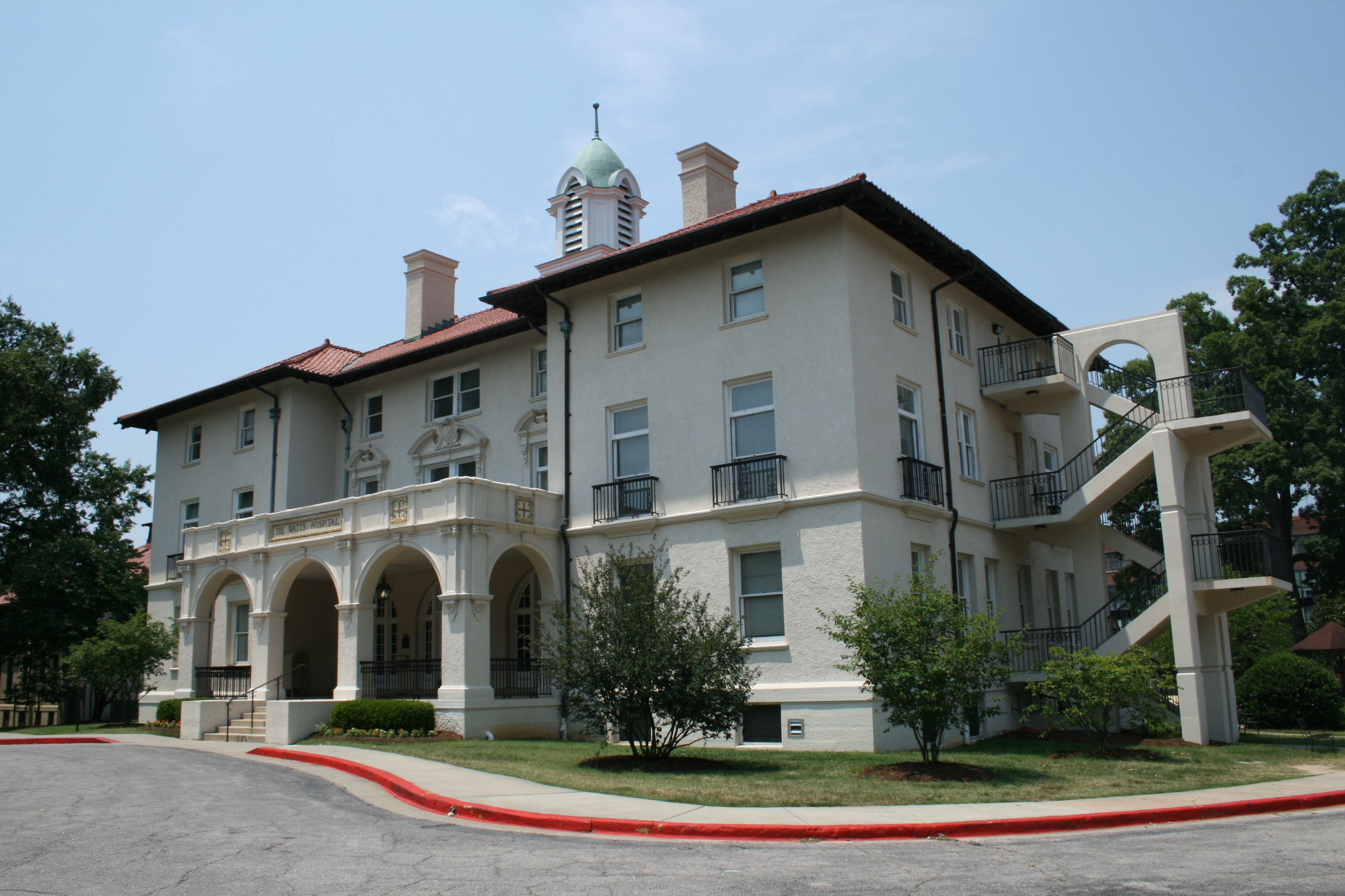 North Carolina School of Science and Mathematics Watts Hall. This used to be Watts Hospital.